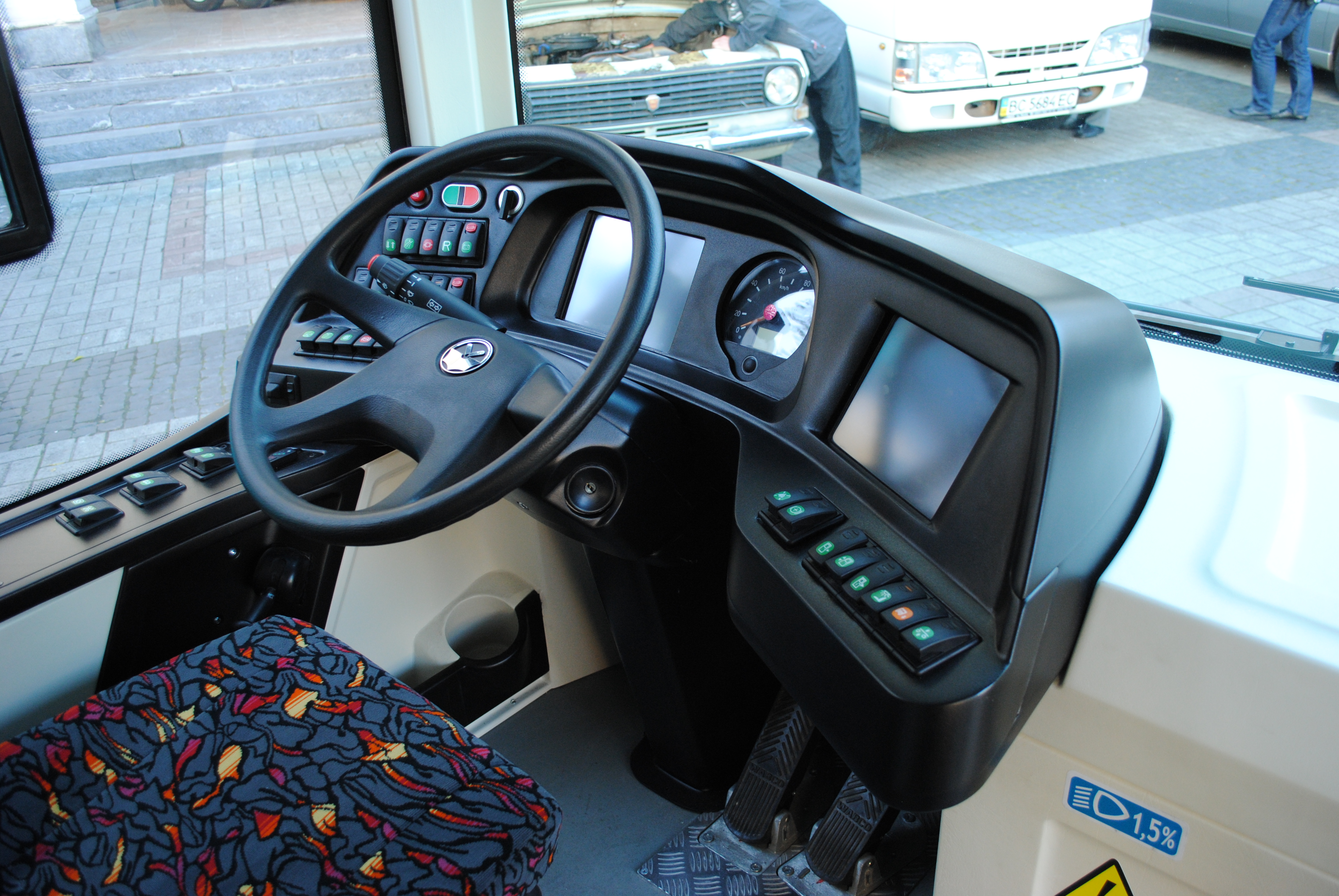 Electron T19101 trolleybus on Lvivsky Tovarovyrobnyk Expo.